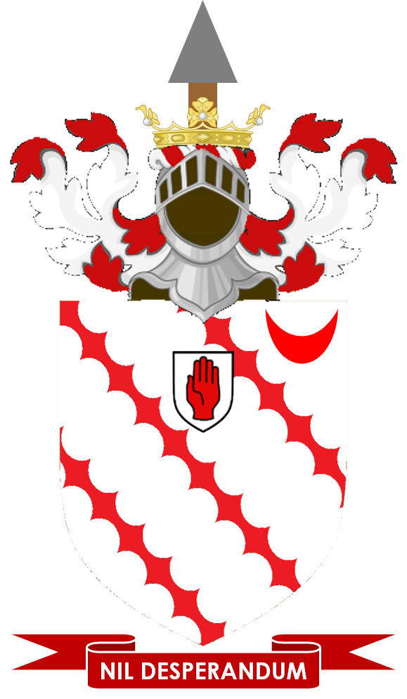 The armorial achievement of the Anson baronets of Birch Hall